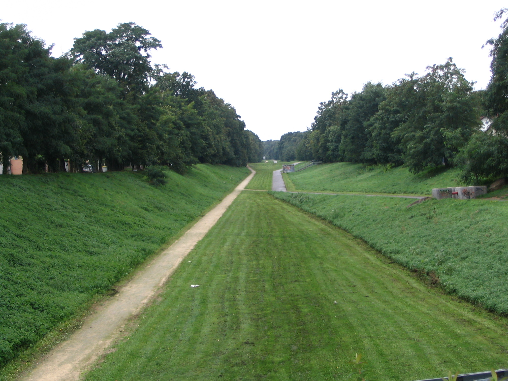 "Coulée verte" created when LGV Interconnexion Est, using old Ligne de Vincennes' platform, was made partly underground. In North-Western Villecresnes, Val-de-Marne, France.